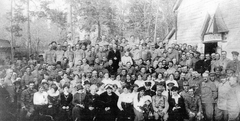 Soldiers of the Romanian Volunteer Corps at the transit camp of Darnytsia/Darnitsa/Darniţa, near Kiev, meeting with friends. This is formerly Austro-Hungarian personnel of Romanian ethnicity, captured by the Russian Empire and subsequently joining the Romanian Army.